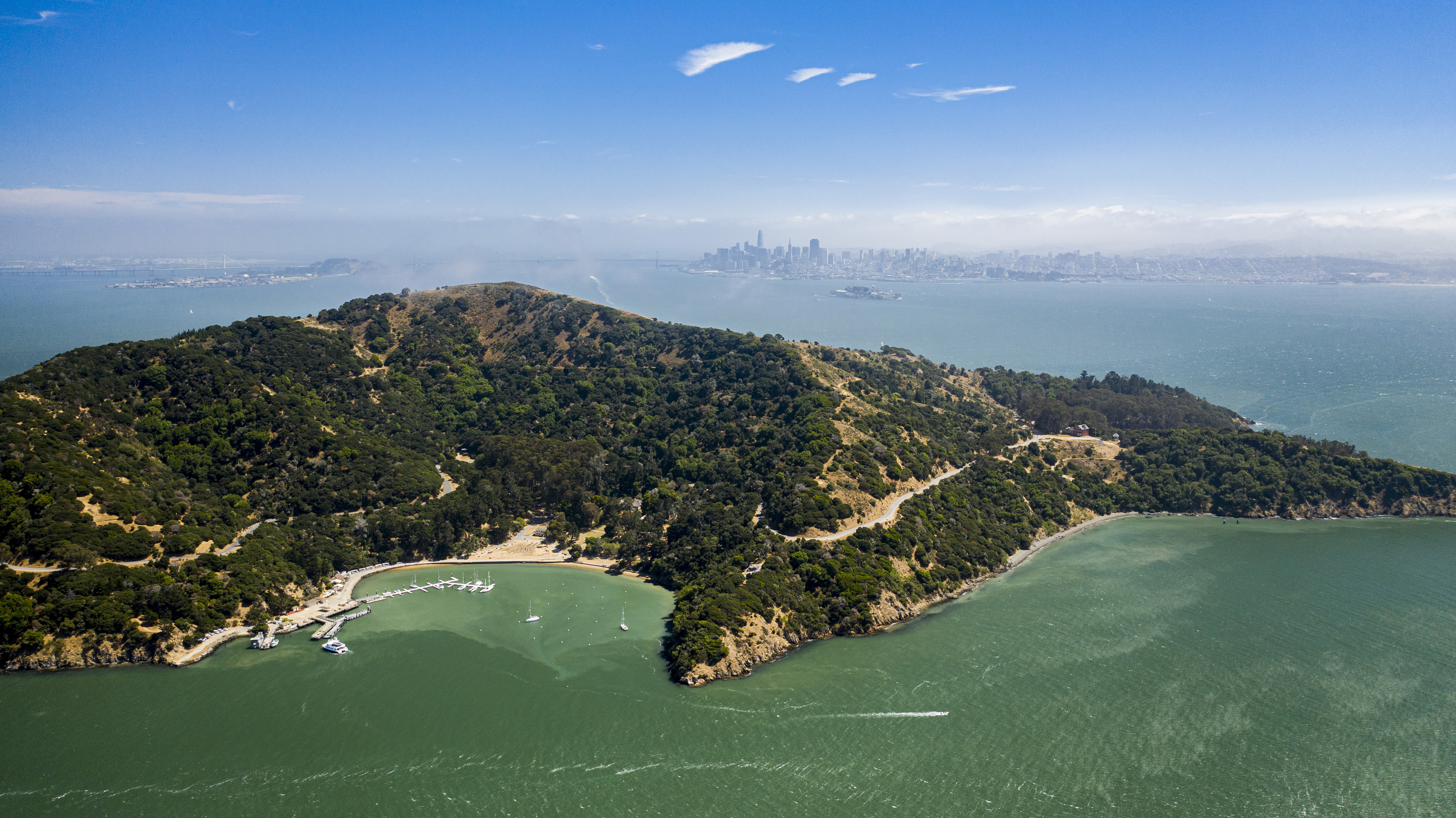 Aerial photograph of Angel Island taken from a DJI Mavic 2 Pro drone with the skyline of San Francisco in the background.